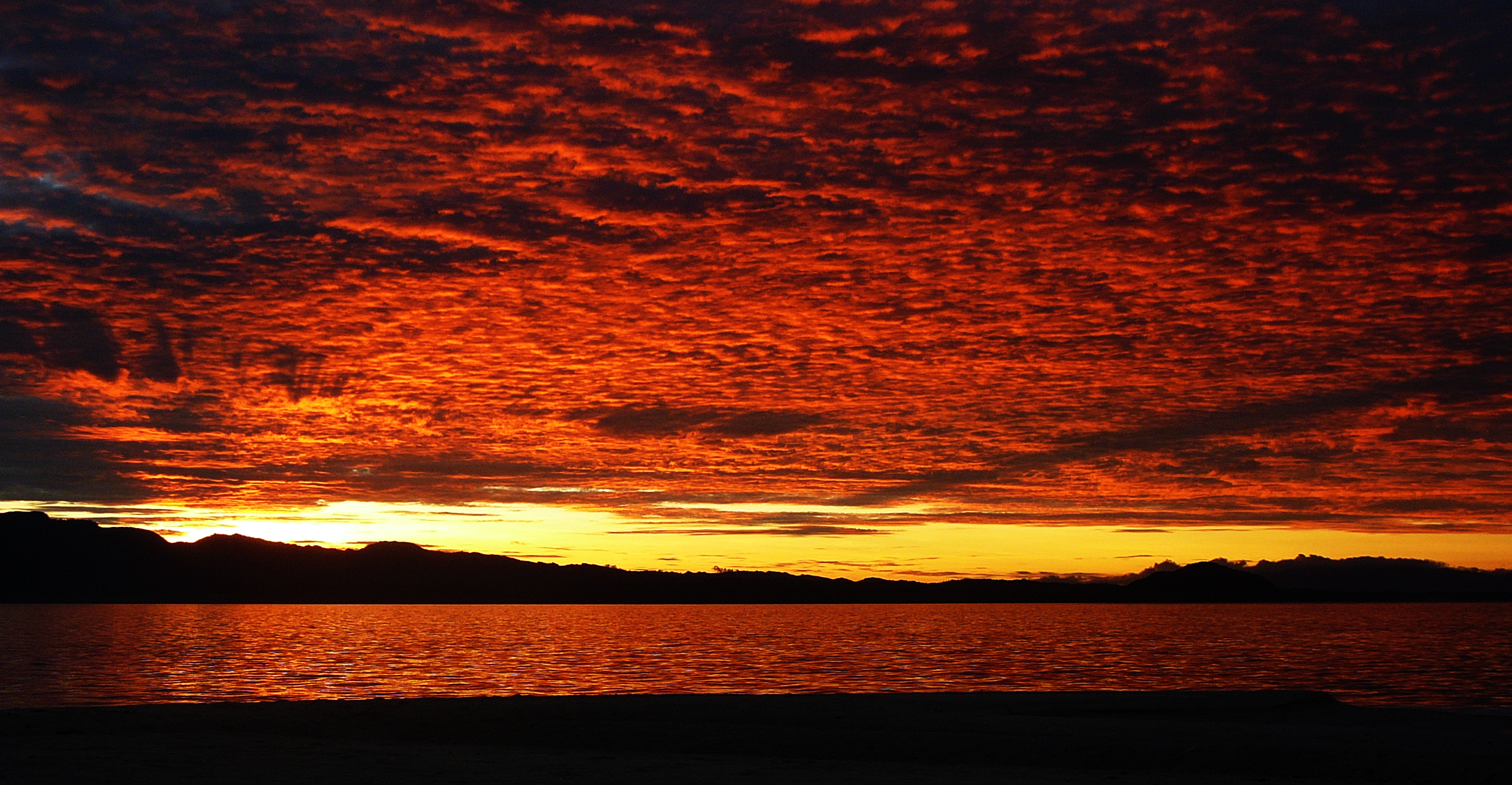 sunset from one of the four islands belonging to the "Cuatro Islas" group